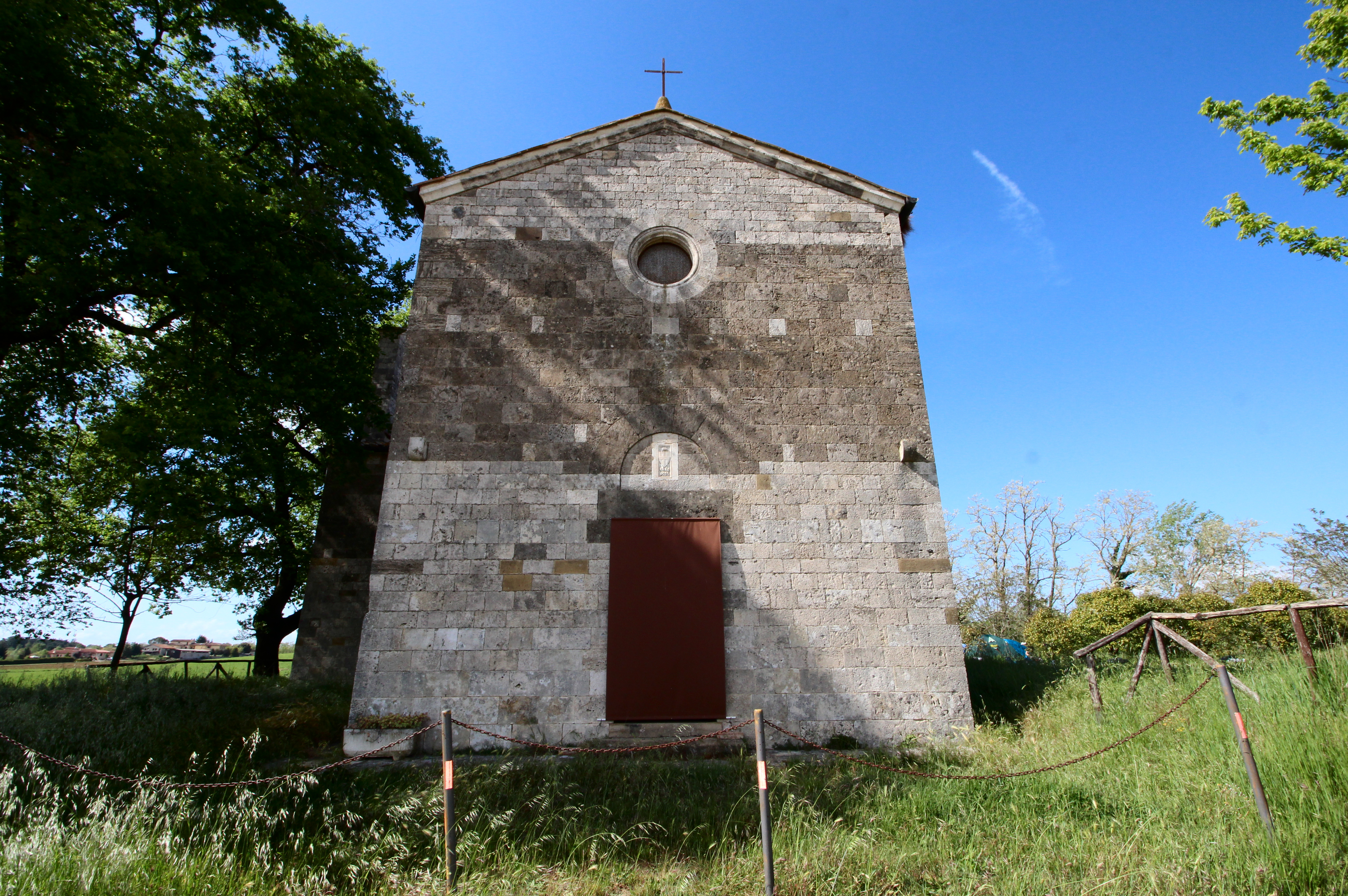 Church Sant'Antonio al Bosco (13th Century), territory of Poggibonsi (near the border to Colle di Val d'Elsa and Monteriggioni), Province of Siena, Tuscany, Italy